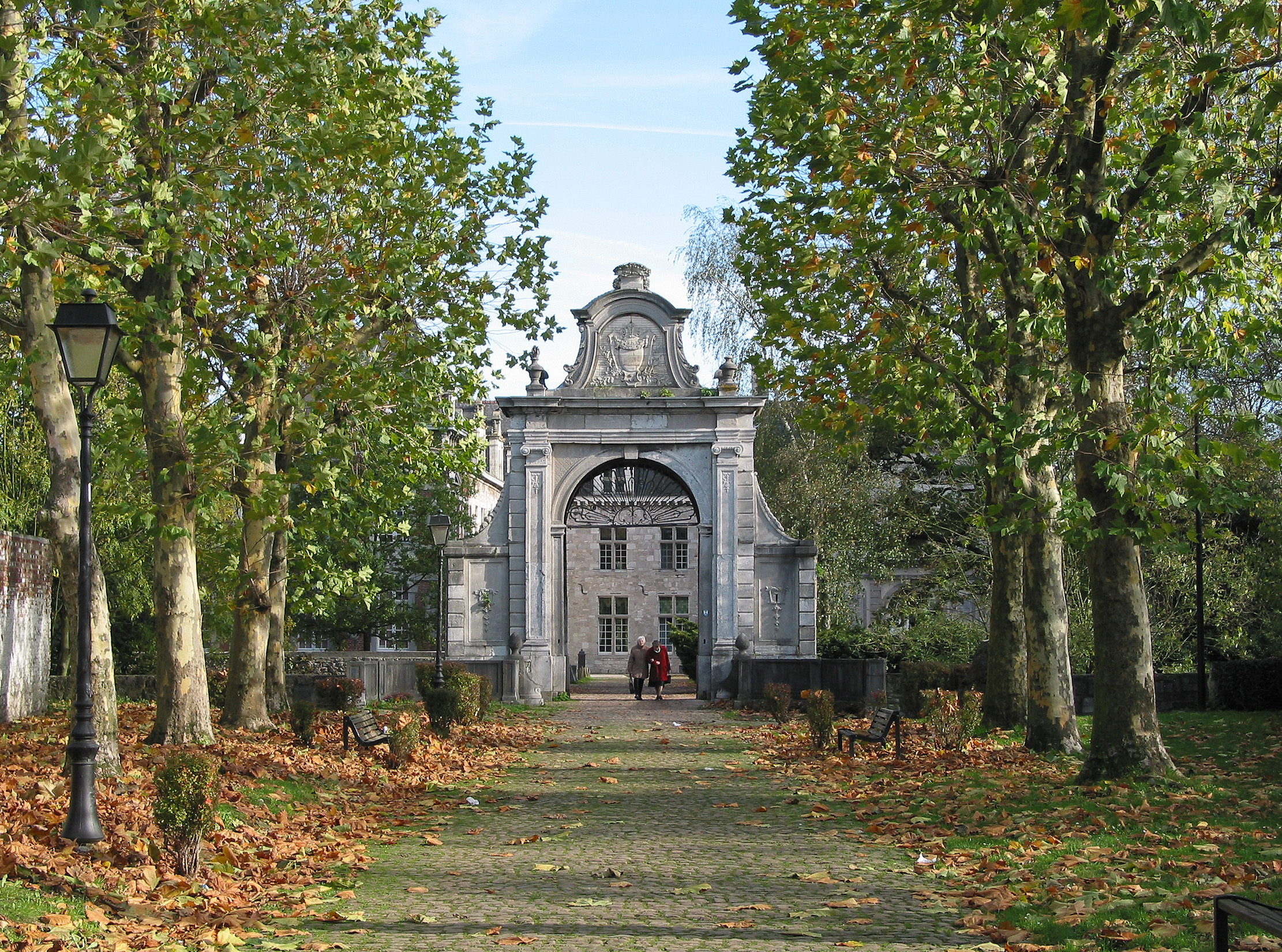 Fontaine-l'Évêque, Belgium: main avenue and monumental porch (17th century) of the lords of Fontaine's castle (18th century)